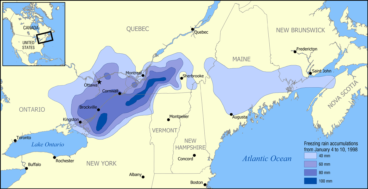 A map showing the extent of the January 1998 North American ice storm that affected eastern Ontario, southwest Quebec, New Brunswick, and parts of New York, Vermont, New Hampshire, and Maine. The map shows the accumulation of ice in millimetres from January 4 to January 10, 1998. Increments shown are 40 mm (1.6 in), 60 mm (2.4 in), 80 mm (3.1 in), and 100 mm (3.9 in).